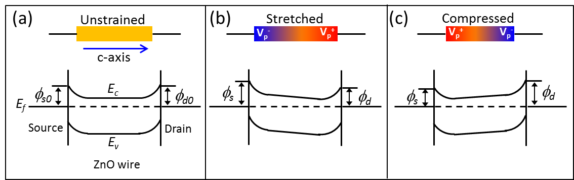 piezotronice